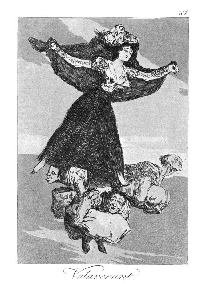 Los Caprichos is a set of 80 aquatint prints created by Francisco Goya for release in 1799.